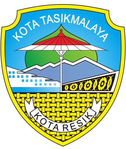 Coat of arms of Tasikmalaya City